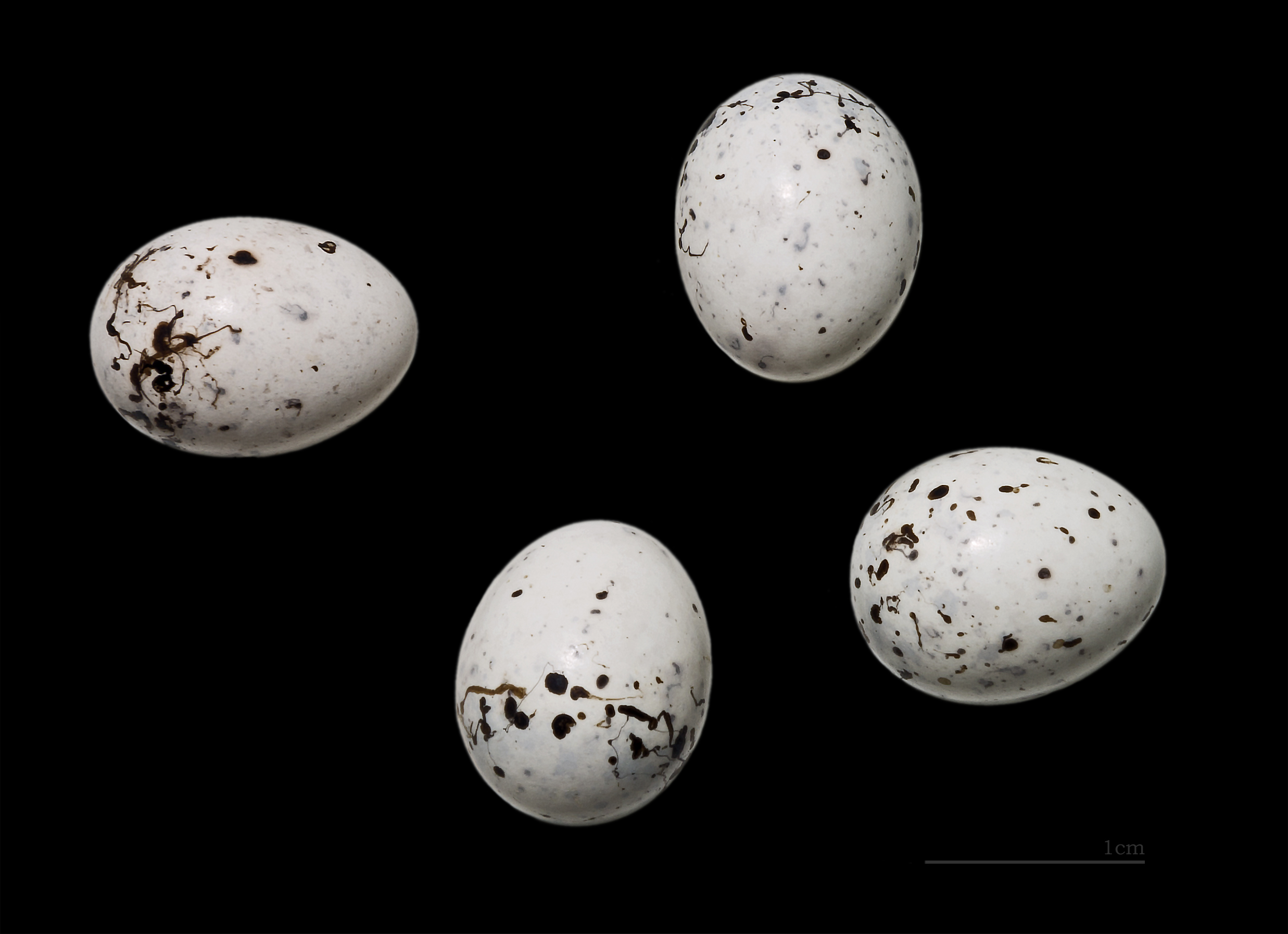 Egg of Booted warbler. Collection of Jacques Perrin de Brichambaut